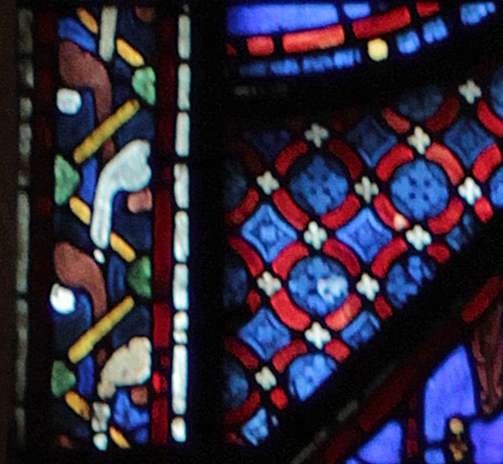 The Life of Saint James the Greater (ambulatory, bay 5).